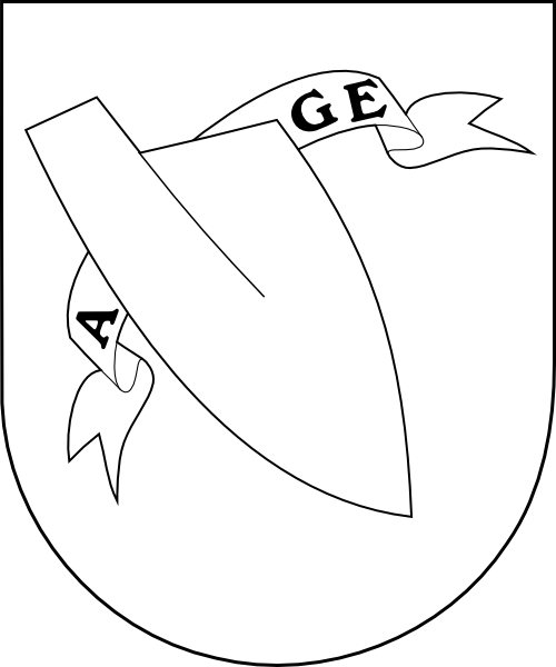 Coat of arms (shield only) of György Schopper, bishop of Rožňava, Slovakia (1872 - 1895); tinctures unknown at the time.